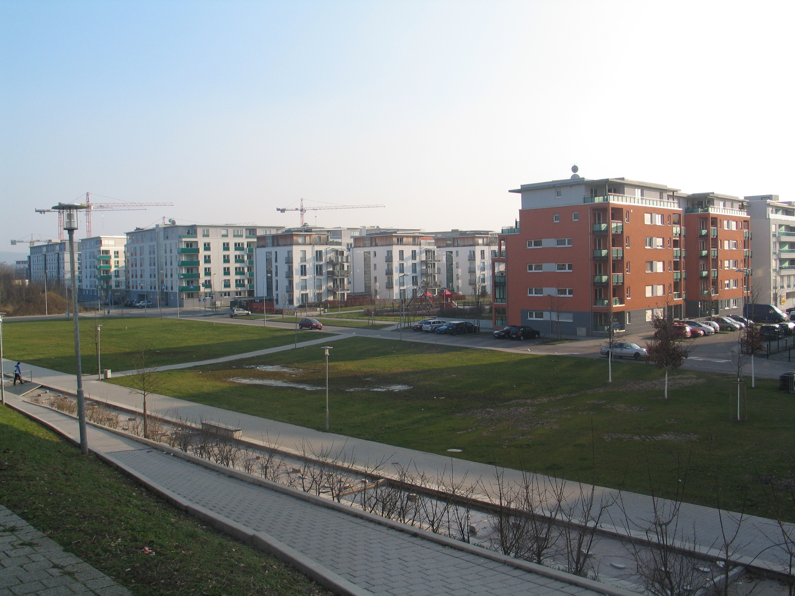 View on the development area "City Park" in Karlsruhe